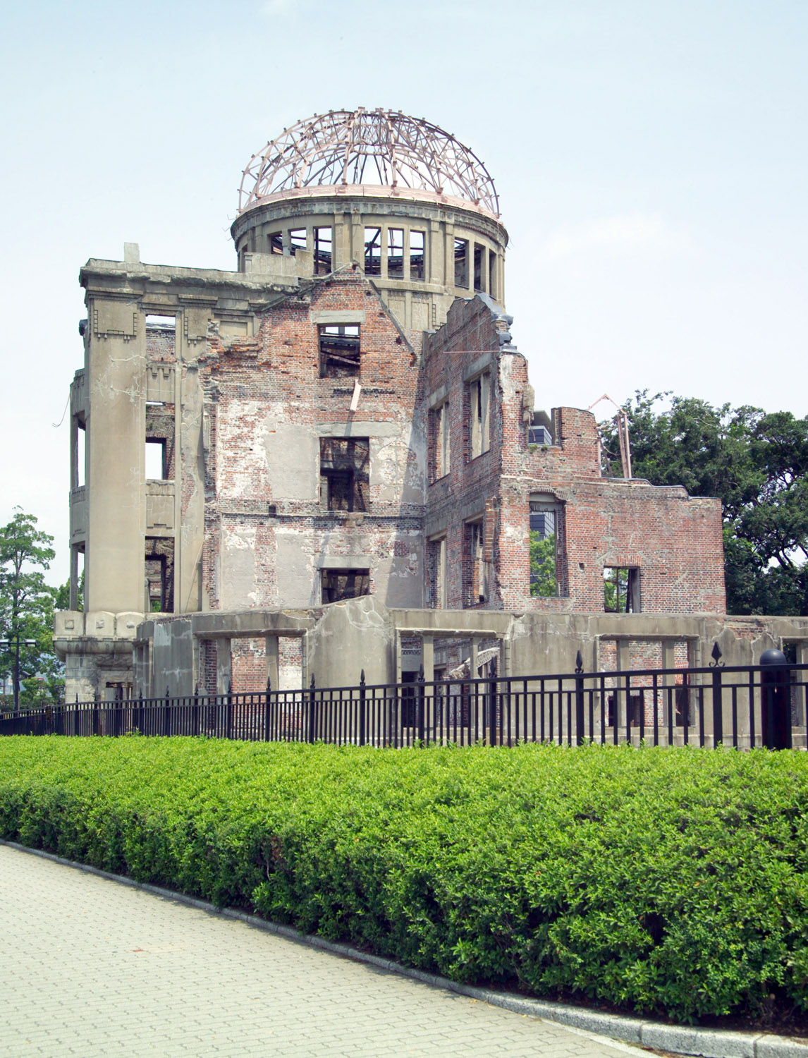 Atomic bomb dome (Genbaku Dome), Hiroshima, Japan. I took the photo.